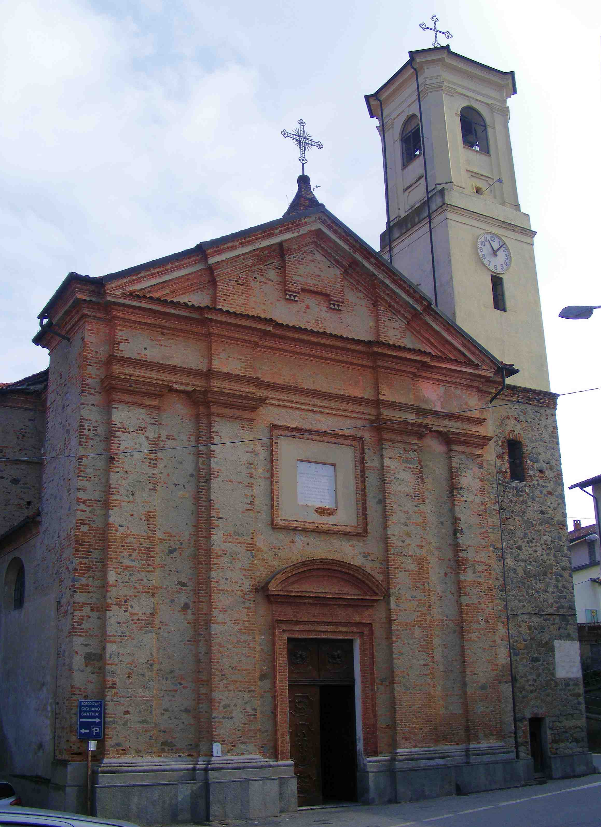 Cossano Canavese (TO, Italy): parish church